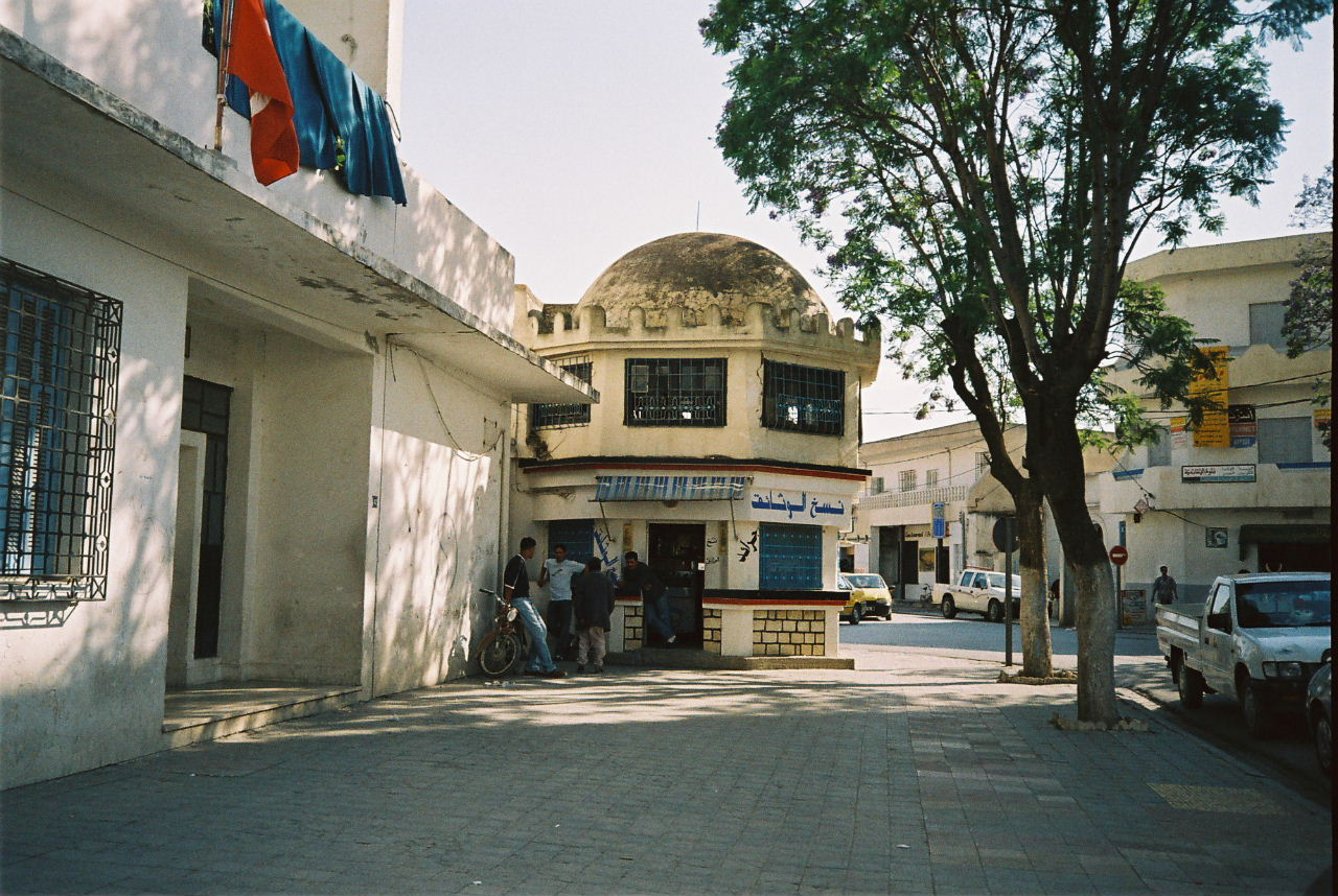 A street of the Tunisian city, Jendouba